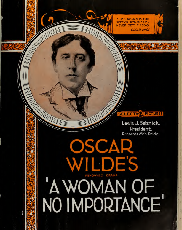 Ad with drawing of Oscar Wilde for the film A Woman of No Importance (1922), based on his play, directed by Denison Clift, form 1922 Film Daily.